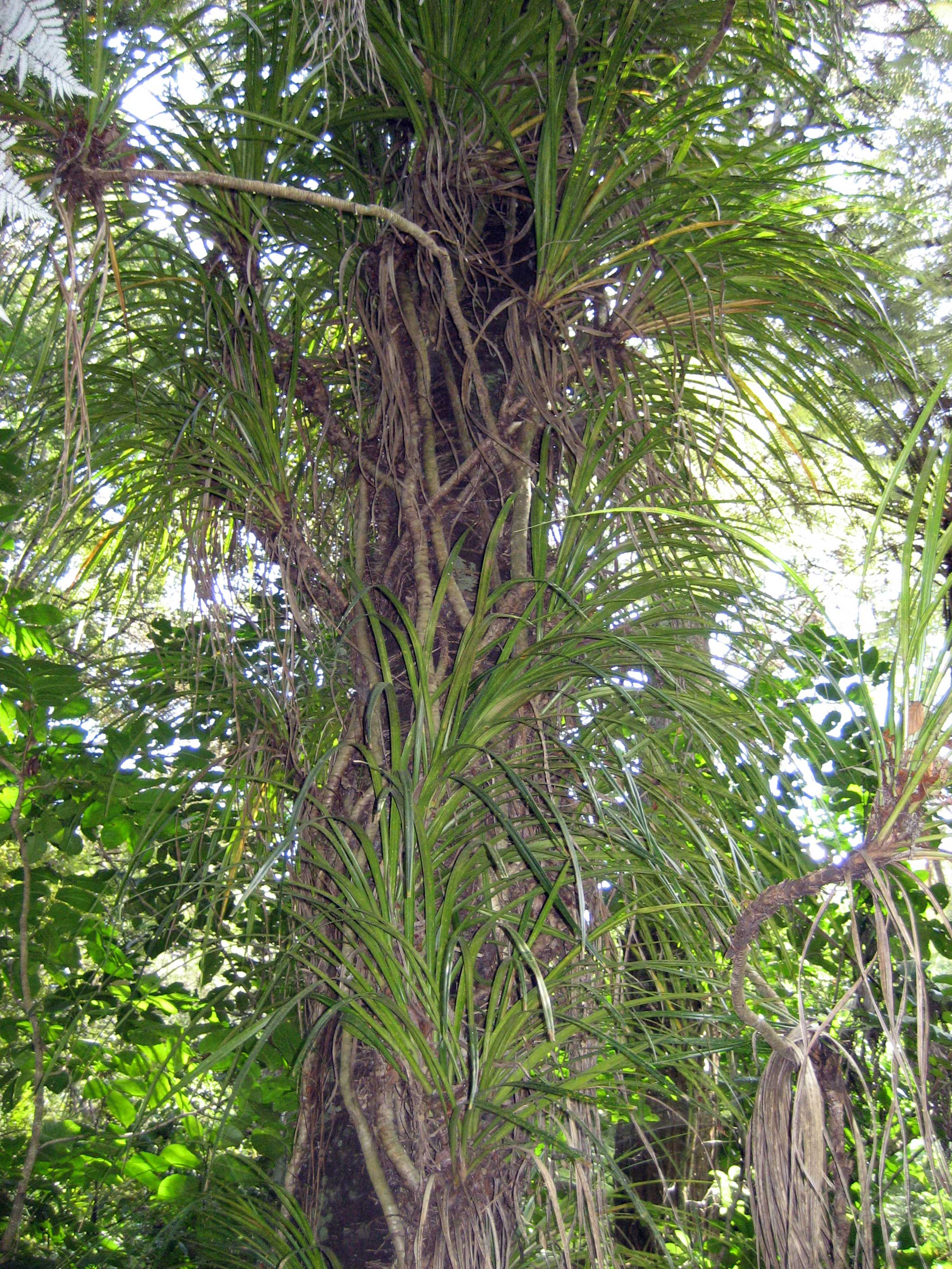 Kiekie (Freycinetia banksii) climbing the trunk of a Kohekohe tree, Auckland, New Zealand.